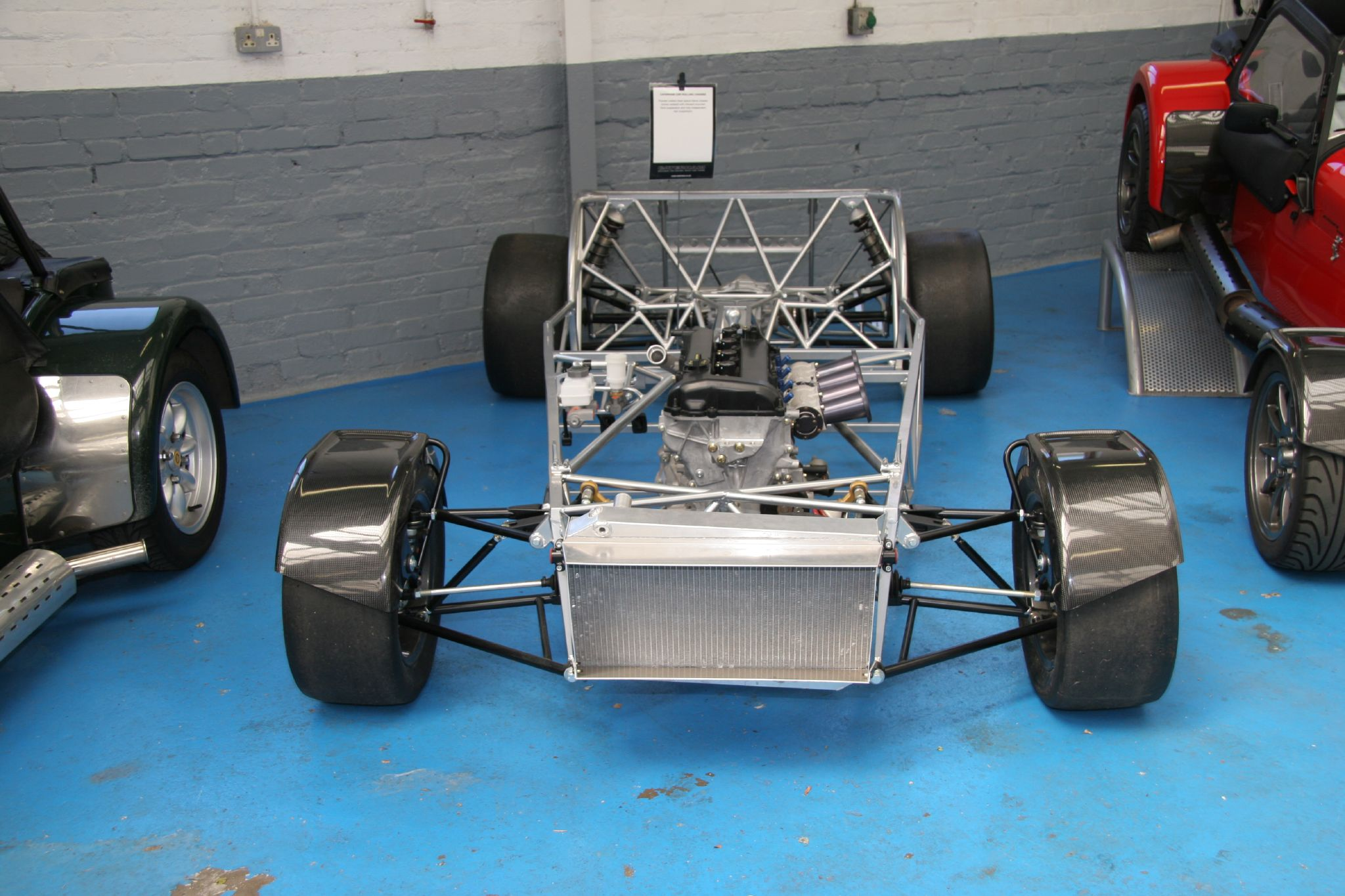 Caterham 7 spaceframe